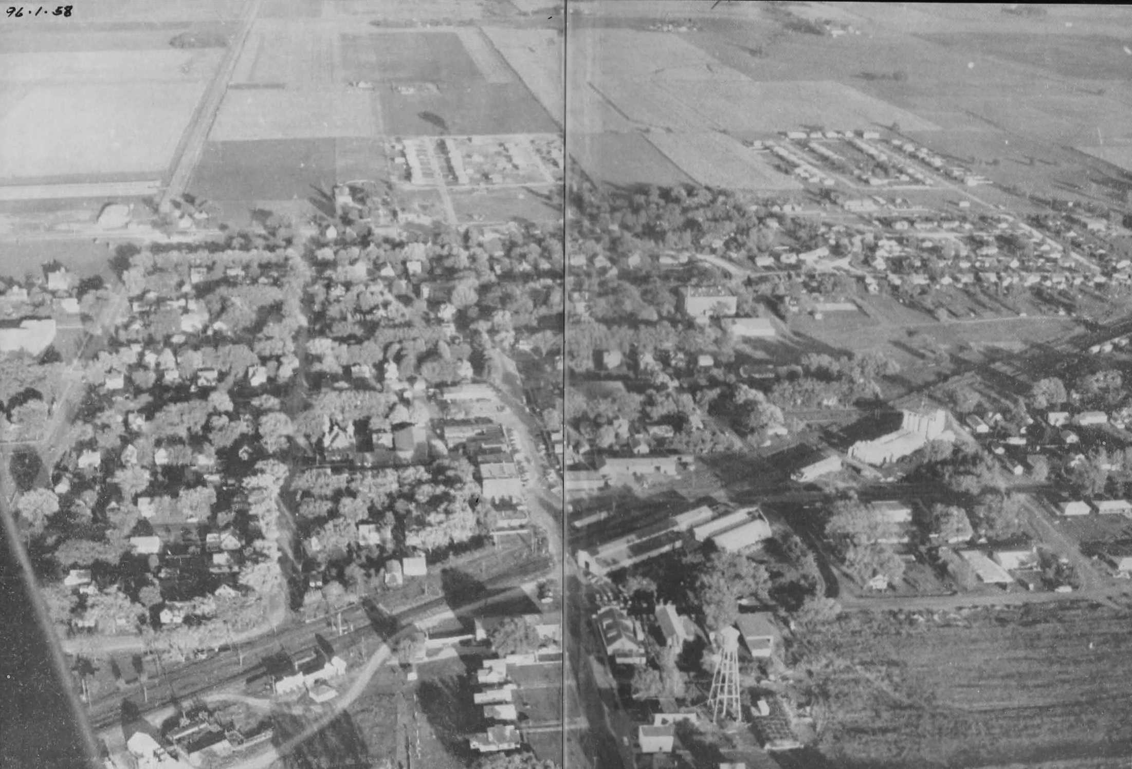 Aerial image of Ankeny, Iowa circa 1958. Taken from 1959 Ankeny High School yearbook two-page spread and composited together from scans of those pages.